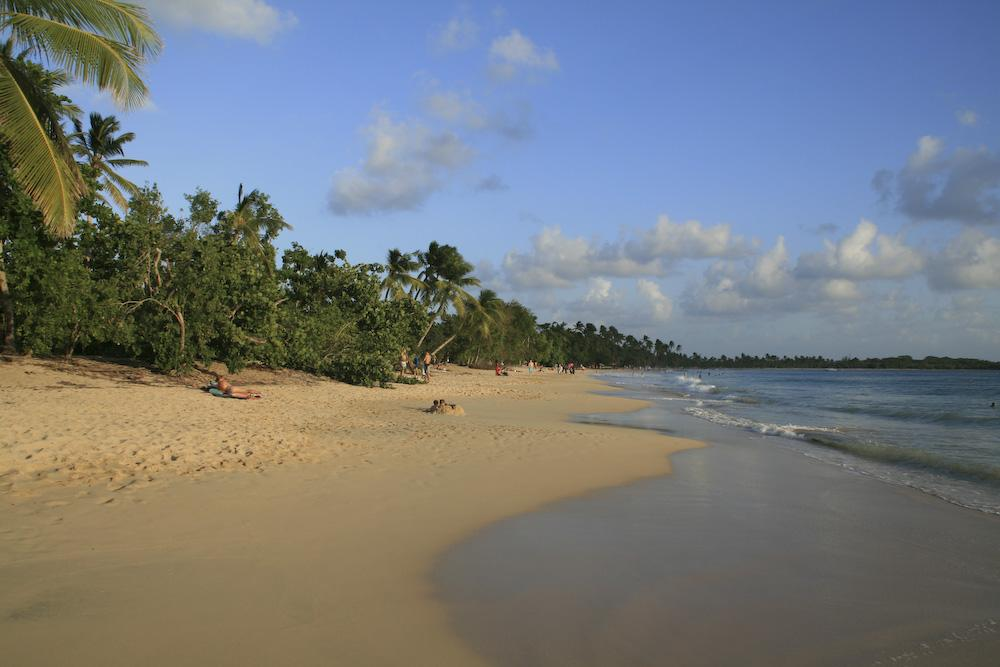 Les Salines is a popular white sand beach at the southern end of Martinique. More photos of Martinique